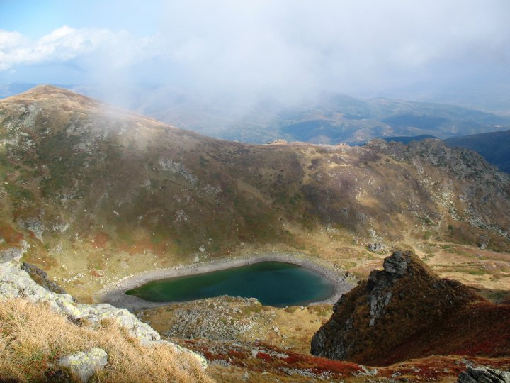 Štrbačko Lake (Albanian: Liqeni i Livadhit or Albanian: Shterbaqko)